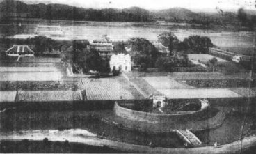 Lăng Triệu Tường